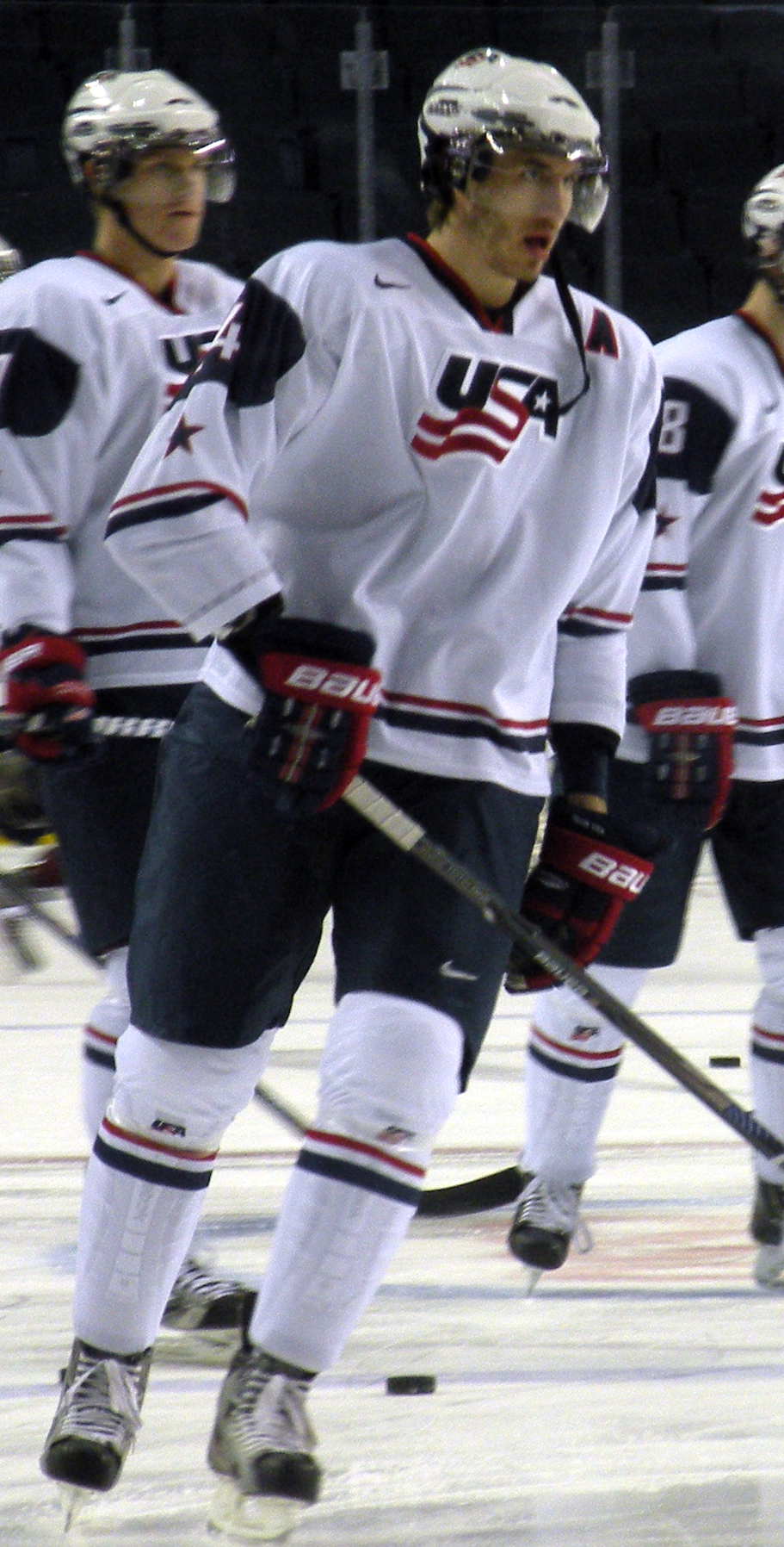 Team USA defenceman Jarred Tinordi prior to a game against Team Latvia at the 2012 World Junior Hockey Championships at Calgary, Alberta, Canada.